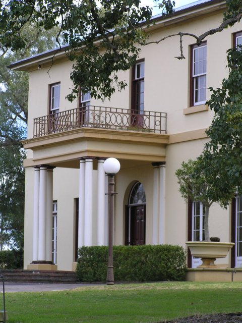 Horningsea Park